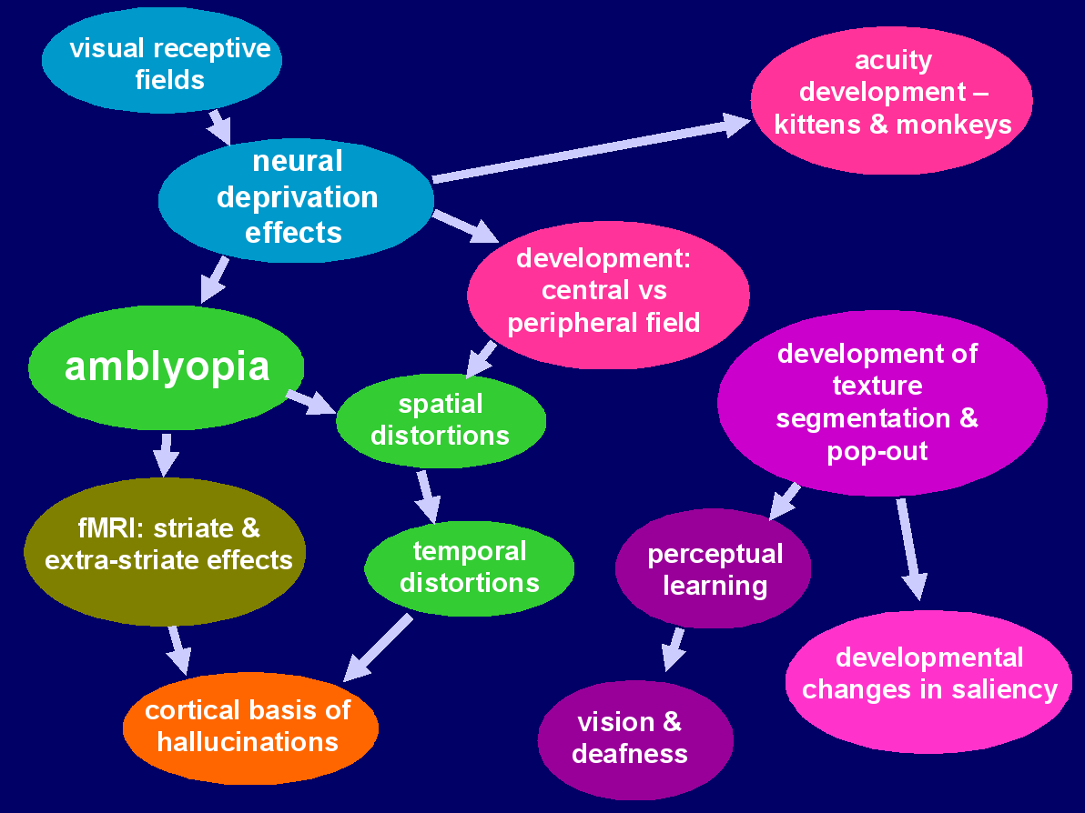 Research areas contributed to by Ruxandra Sireteanu-Constantinescu (1945-2008), short name Ruxandra Sireteanu, Romanian-German biophysicist